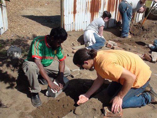 A picture of Cultural Worker Marcel Diallo laying bricks at the Village Bottoms Farms Saturday Work Party with a few of his neighbors.